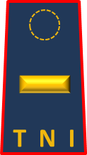 Second Lieutenant rank insignia that used on daily uniforms of Indonesian Navy (holder of command)